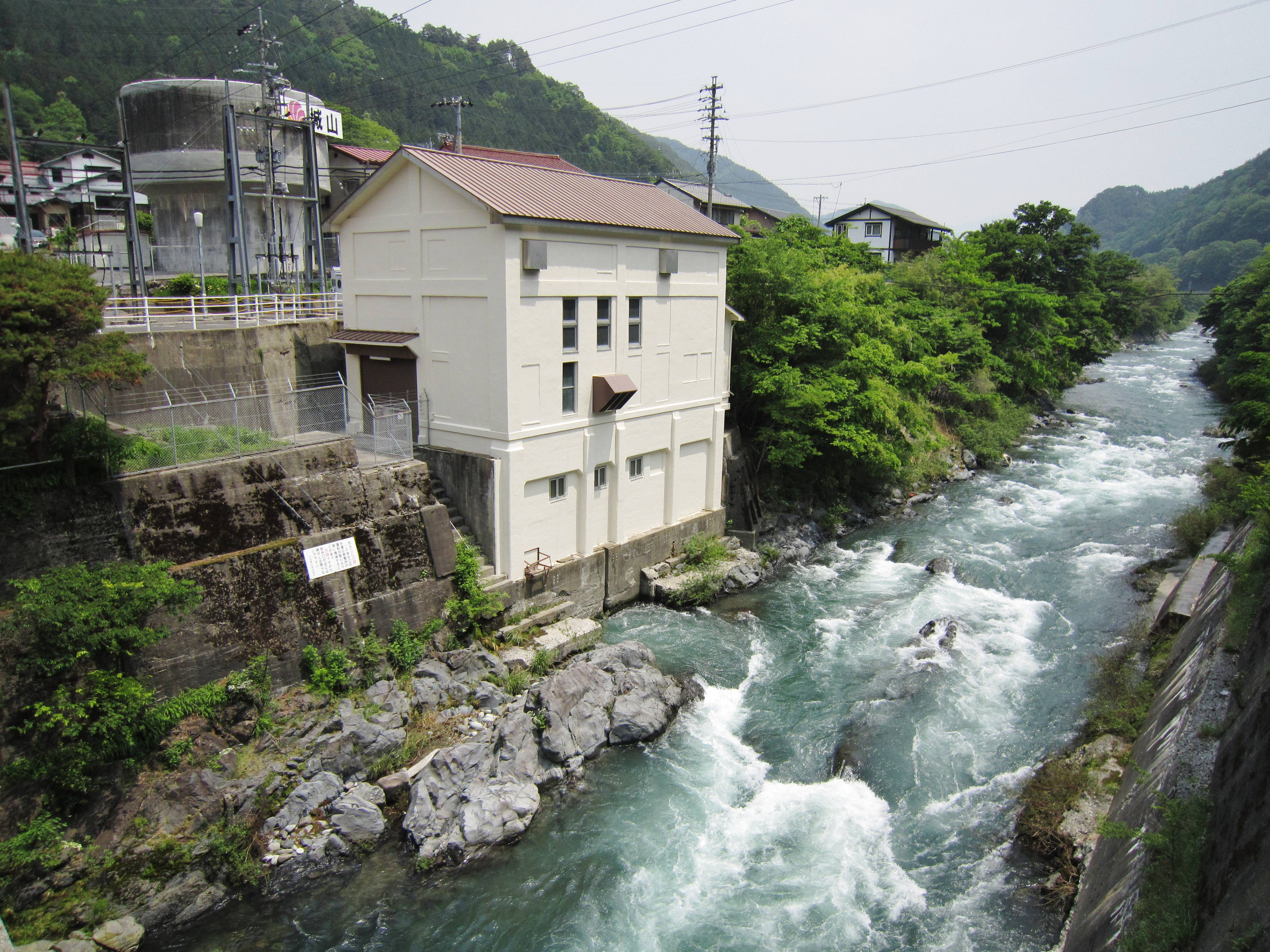 Jōyama power station.